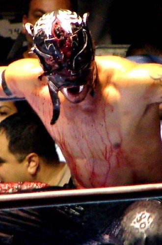 Is Extreme Tiger, wrestler of Asistencia Asesoría y Administración.